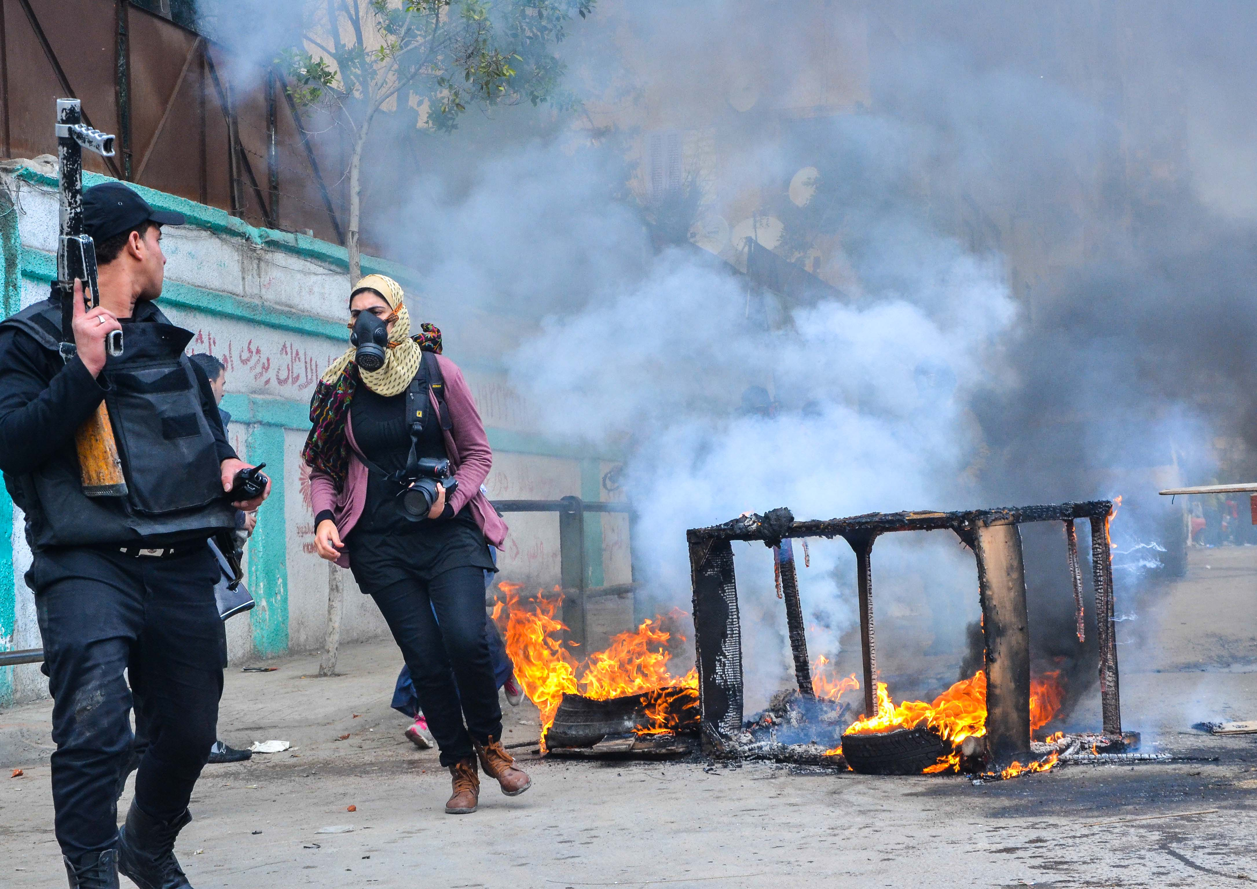 A photograph of a newspaper photographer Heba Khamis trying to penetrate the fire during clashes between the Egyptian police and the Muslim Brotherhood in the area of ​​Sidi Bishr in Alexandria Egypt